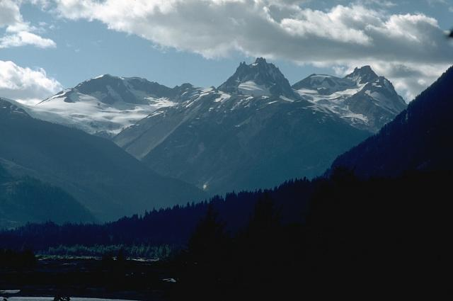 The Mount Meager massif rising above the Pemberton Valley. Summits left to right are Capricorn Mountain, Mount Meager and Plinth Peak.